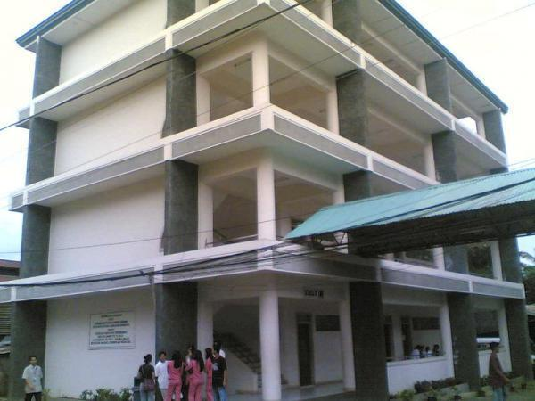 Bukidnon State University | The College Of Law Building, Bukidnon State University, Malaybalay City